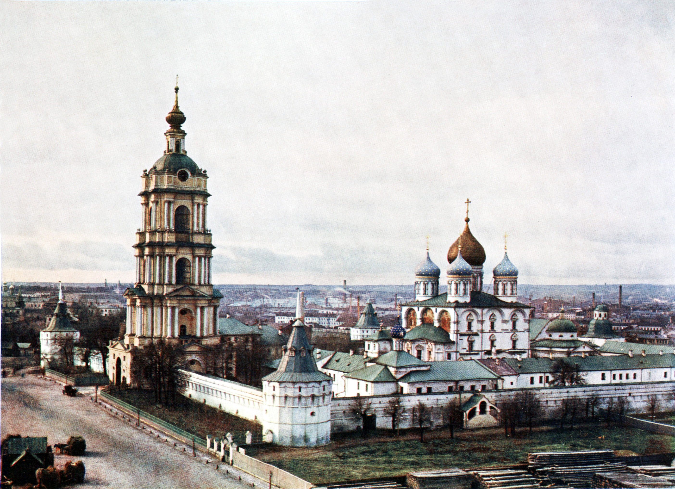 Novospassky Monastery (New monastery of the Saviour) in Moscow